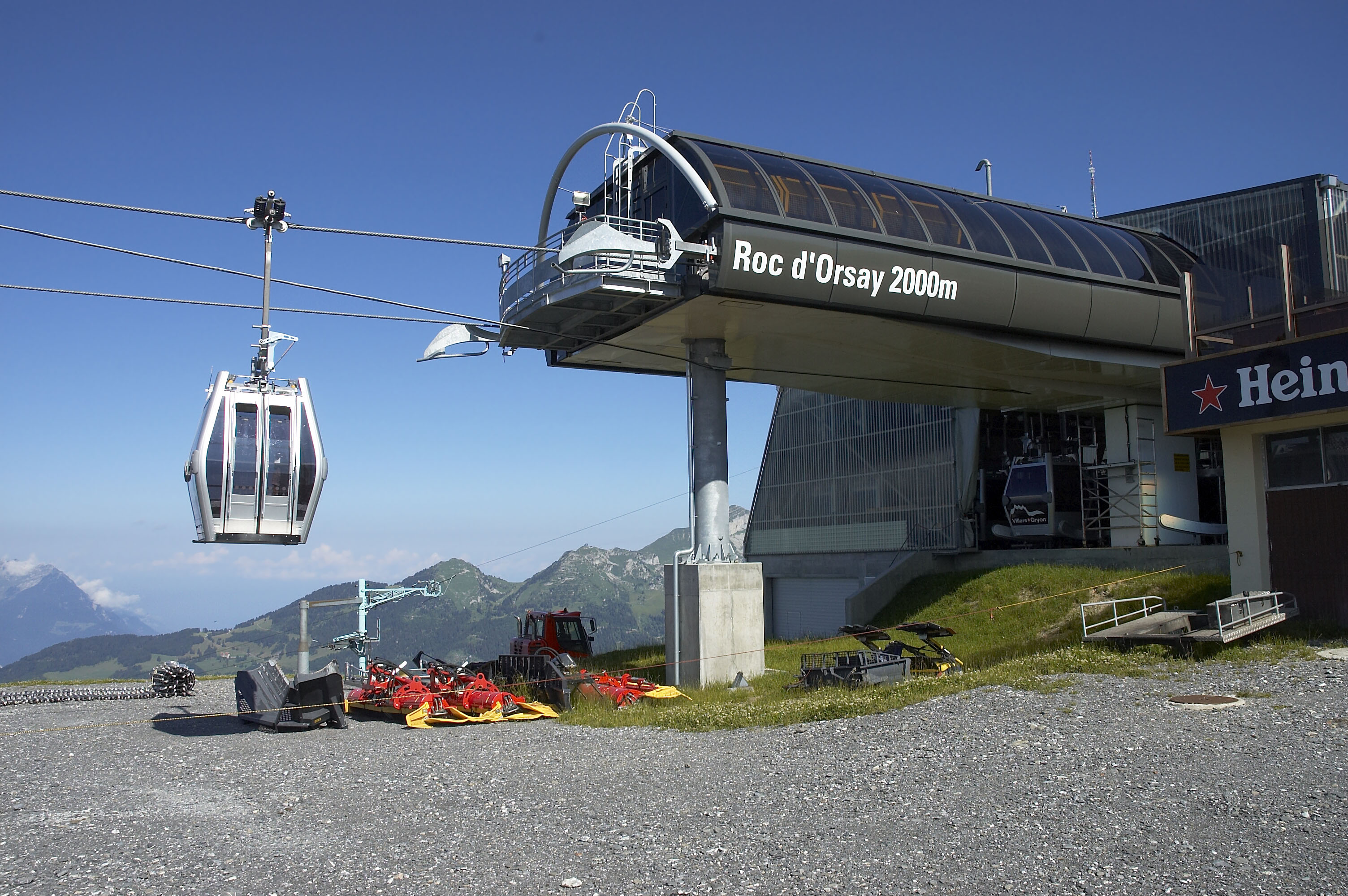 Télécabine Roc d'Orsay 2000 in Villars-sur-Ollon